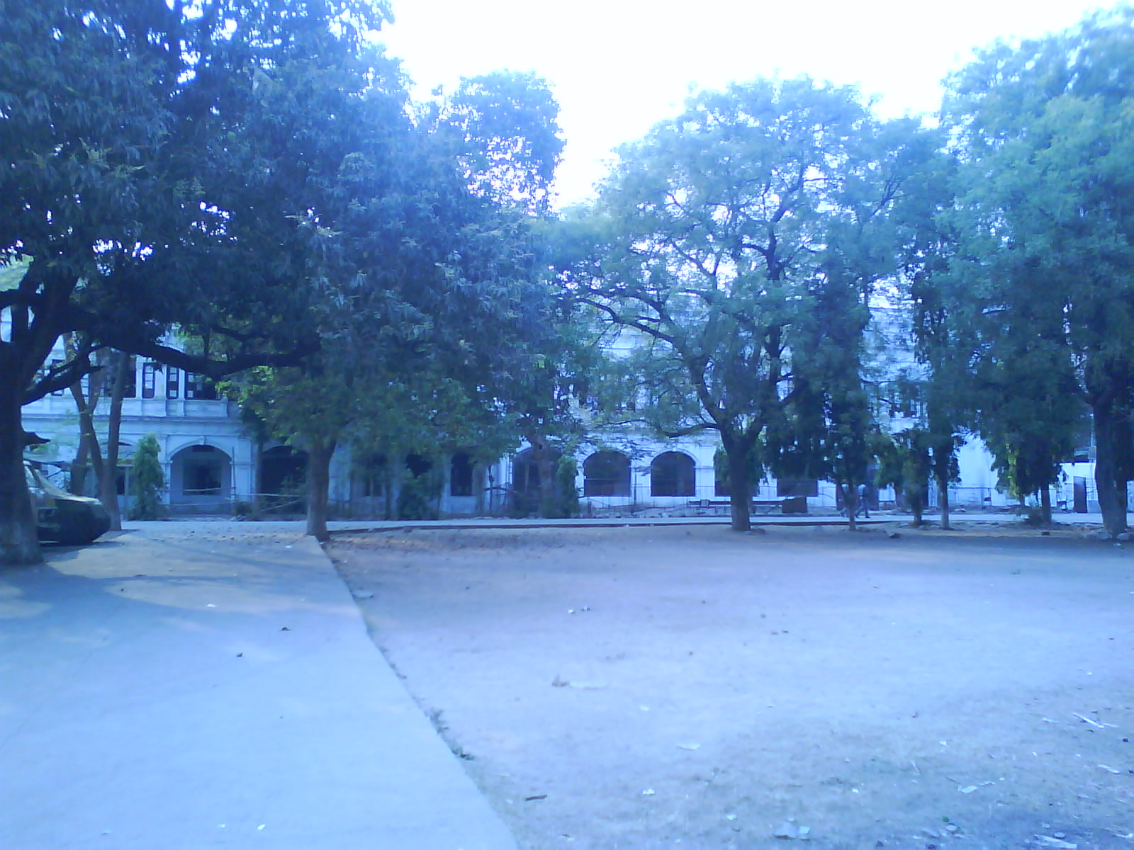 This is the picture of the royal palace, Purani Haveli, located in Hyderabad, India. This is the picture of the royal palace, Purani Haveli, located in Hyderabad, India.